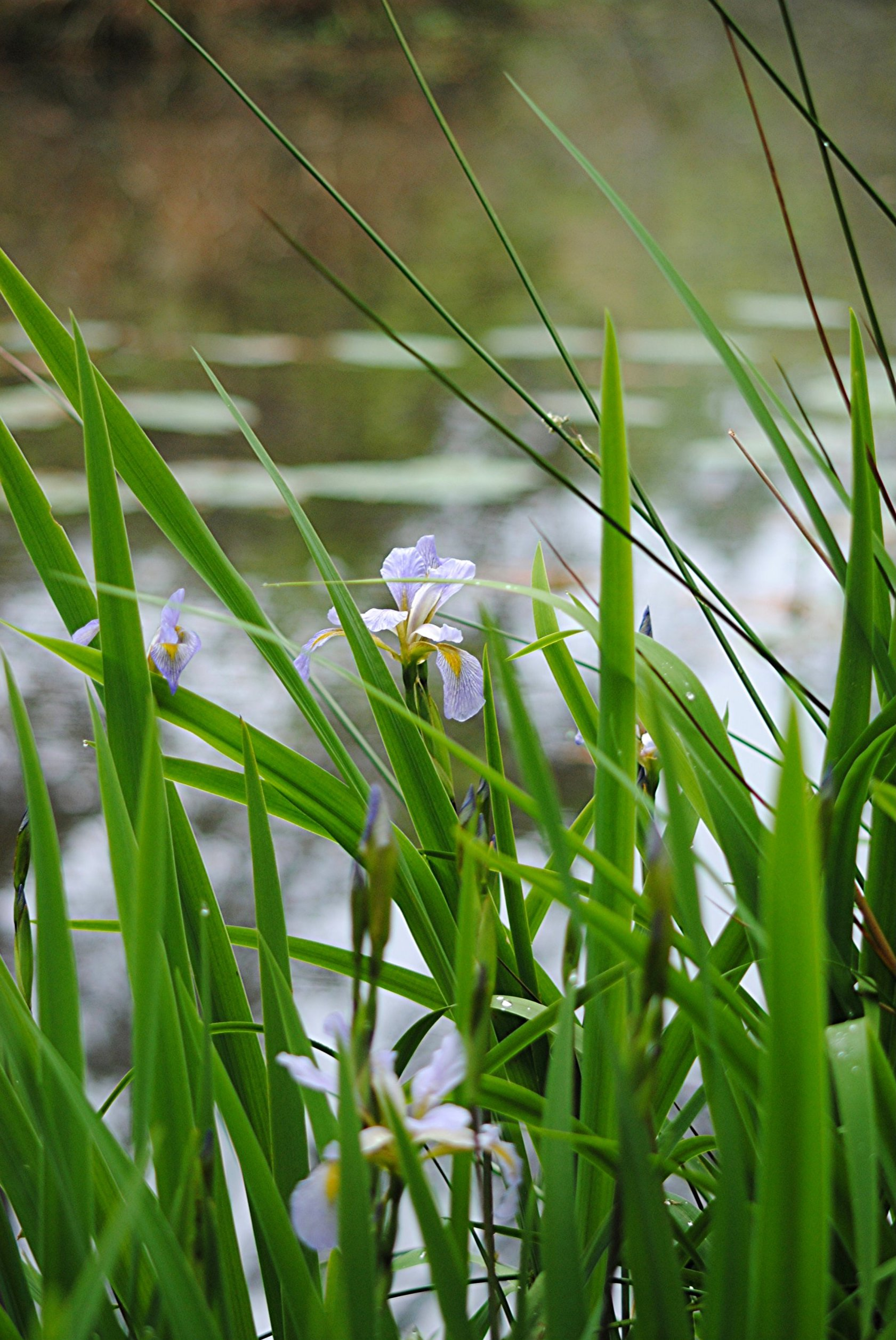 A pondside Iris at Crosby Arboretum, Picayune, Mississippi